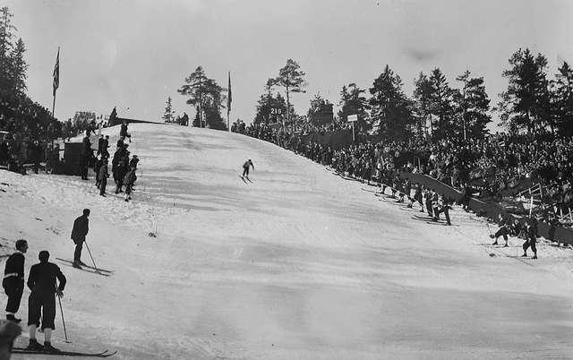 Holmenkollbakken in Oslo, Norway, during FIS Nordic World Ski Championships 1930